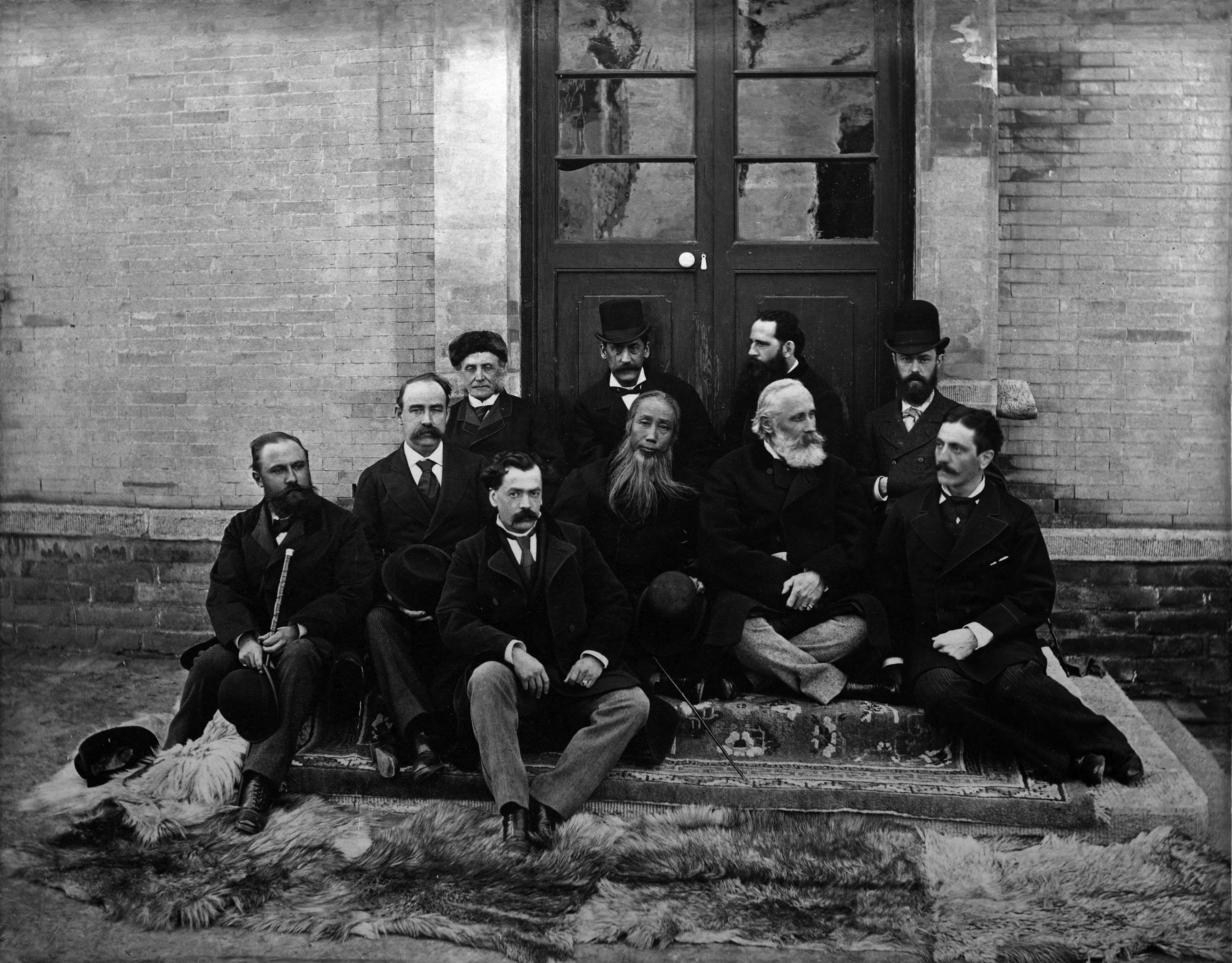 Photograph in Album of photographs of Peking and its environs.